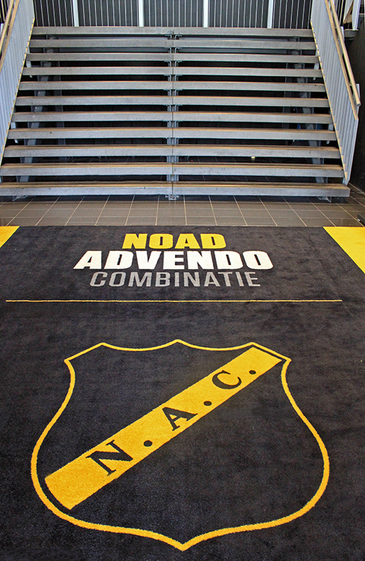 NAC Breda's current logo, photo taken in the lobby of the main building